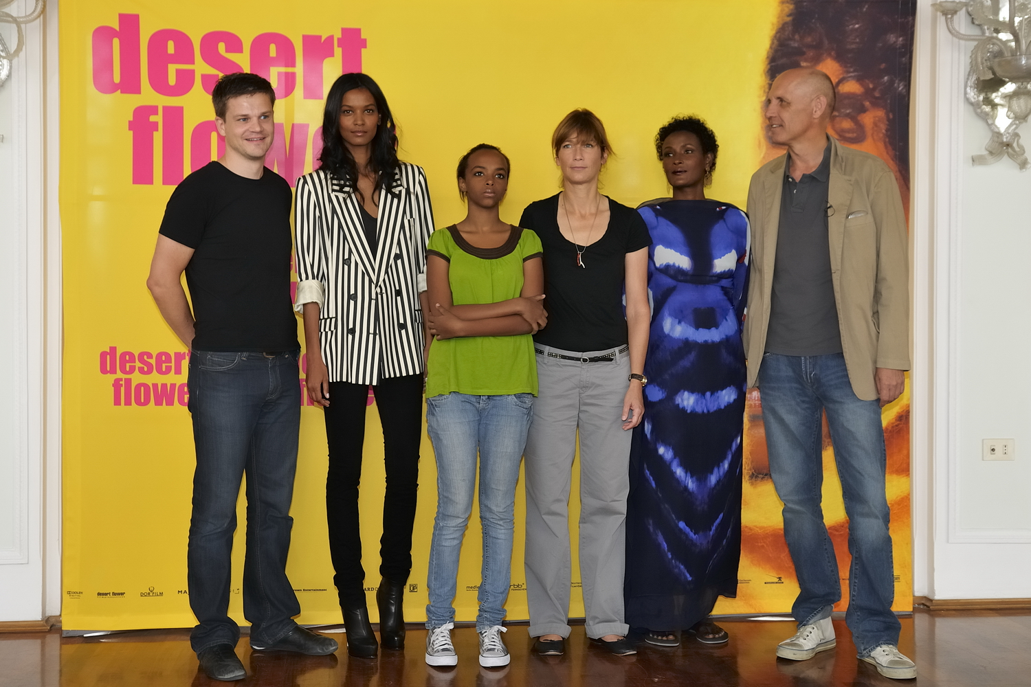 Cast and crew of Desert Flower. From left to right: Benjamin Herrmann, Liya Kebede, Soraya Omar-Scego, Sherry Hormann, Waris Dirie, Peter Herrmann.